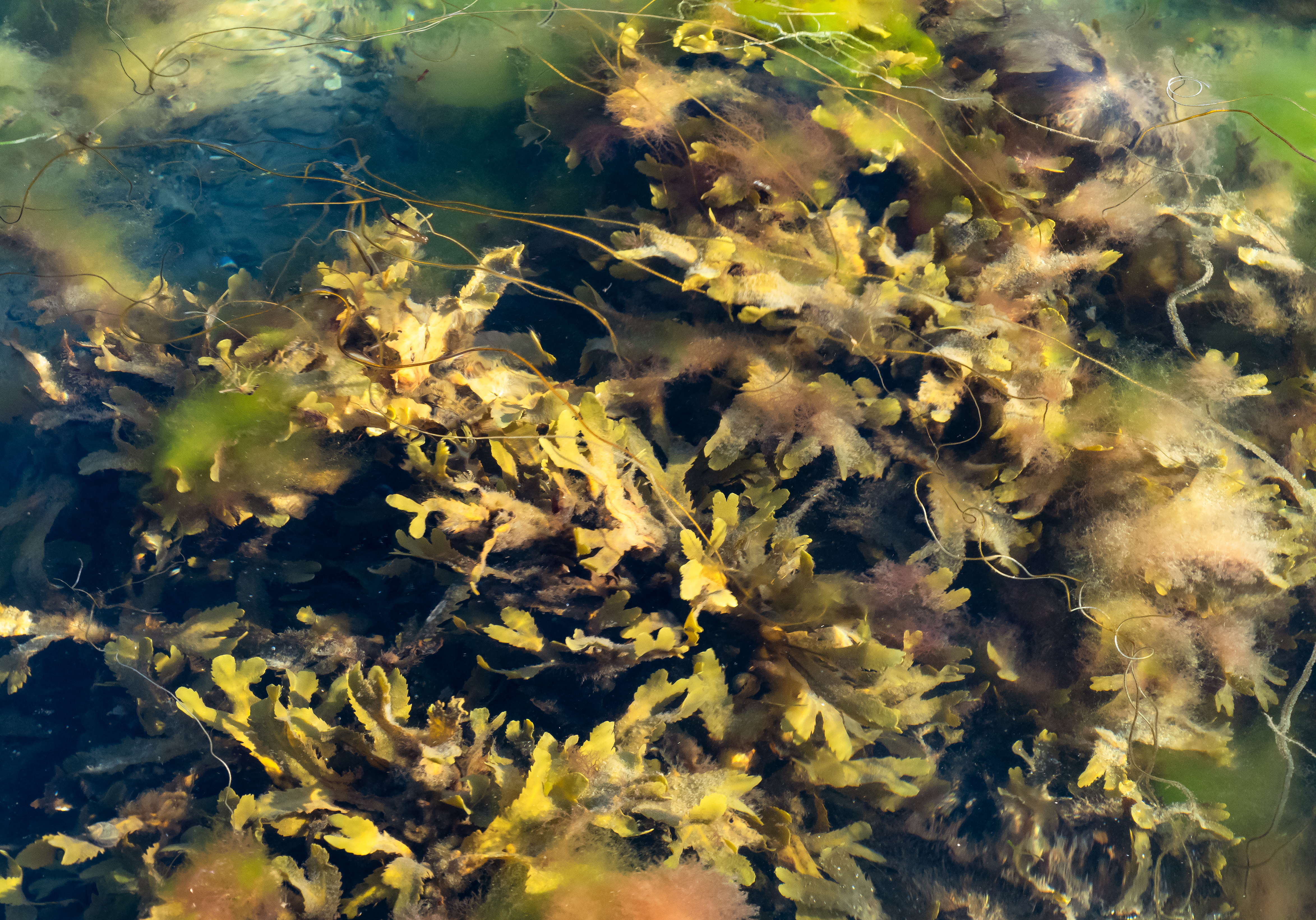 Serrated wrack (Fucus serratus), red hornweed (Ceramium virgatum), Aglaothamnion roseum and other algae in Govik, Lysekil Municipality, Sweden.